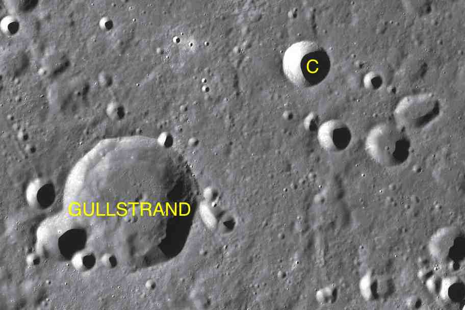 Part of the chart LAC-35 used for the presentation